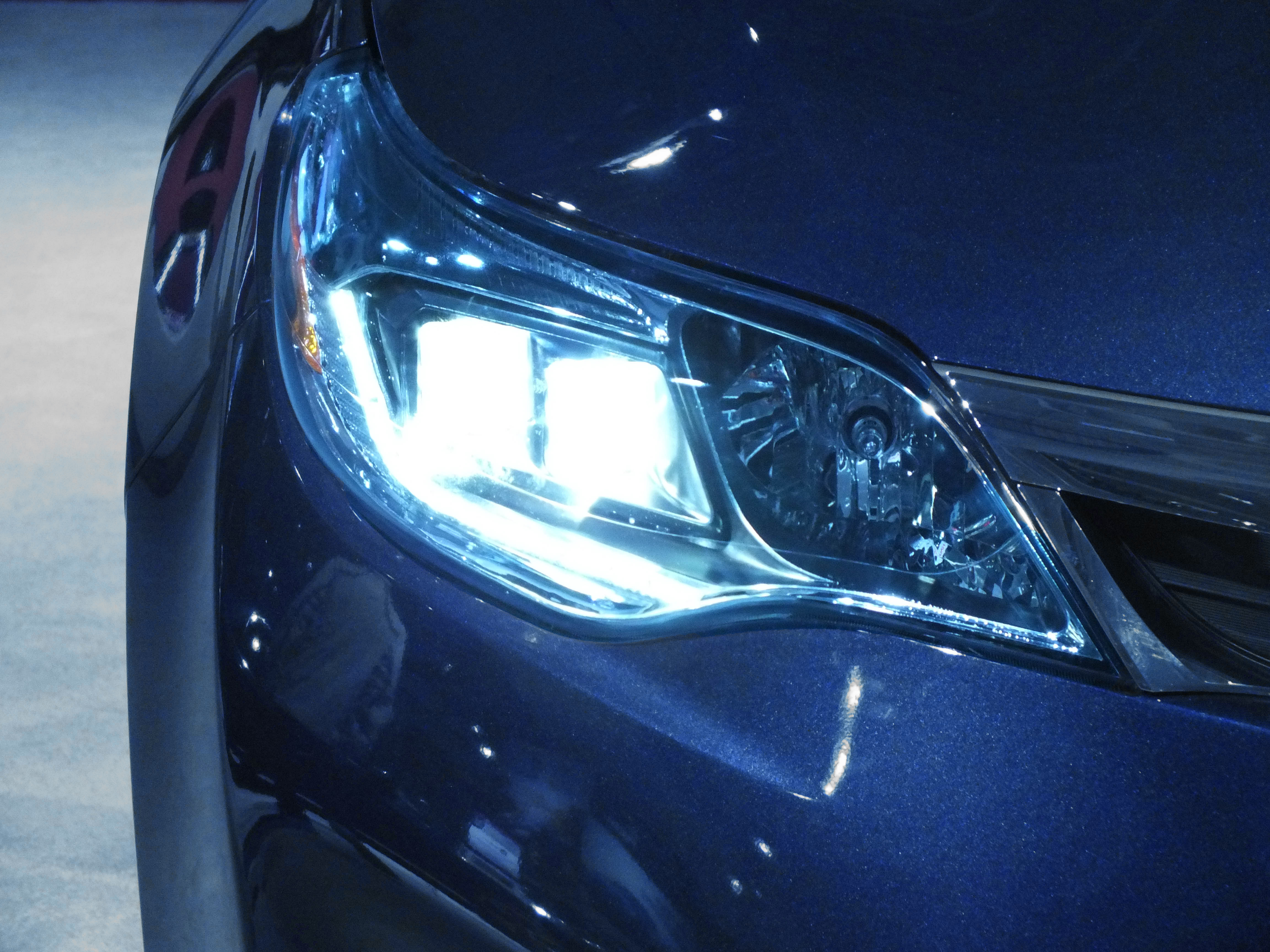 The headlight assembly found on the 2014 Toyota Avalon. The Avalon features HID Quadrabeam headlights and LED Daytime Running Lights (DRL), that also illuminate with the low beams turned on. (North America)